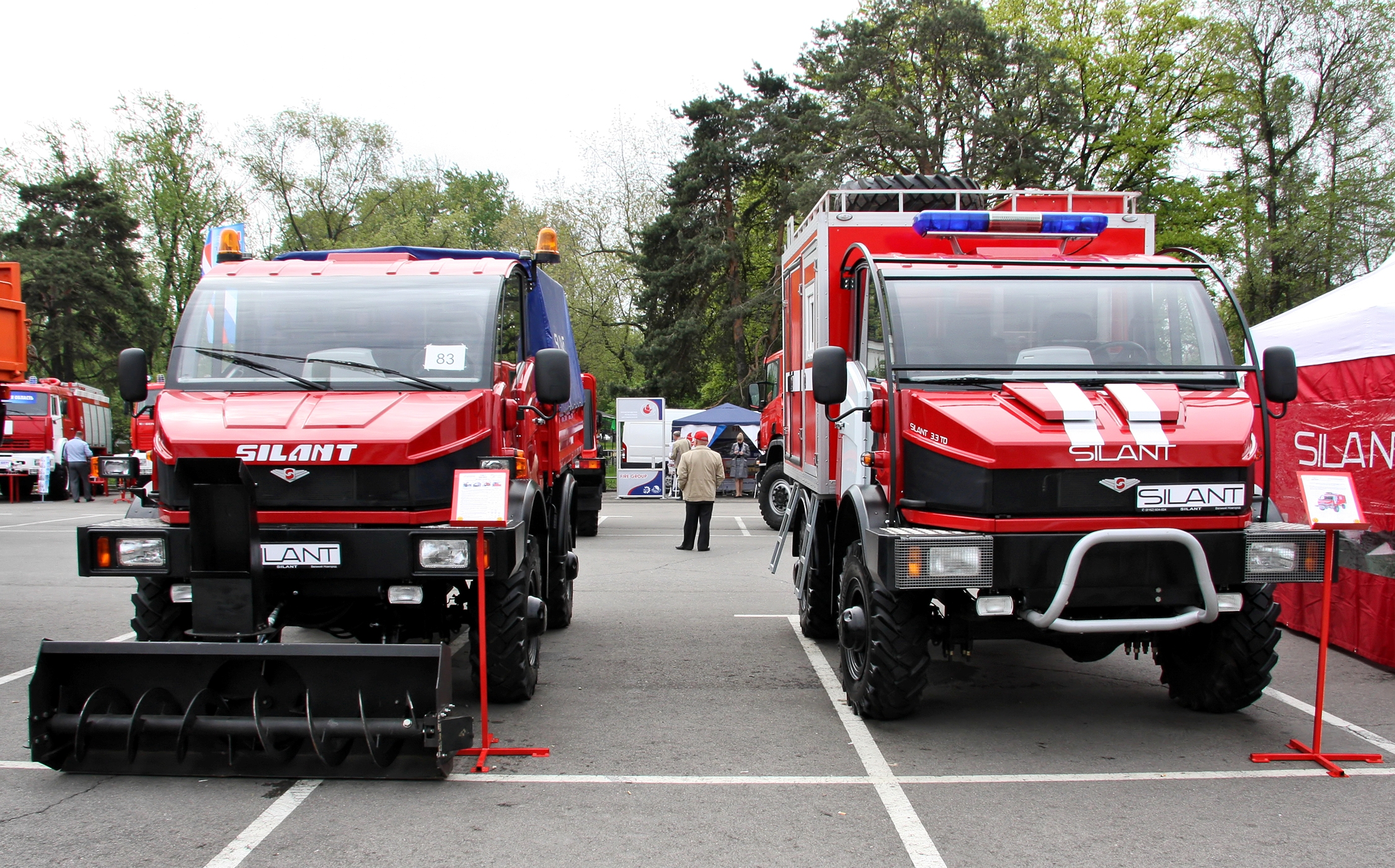 Forest fires light vehicle on Silant 3.3TD chassis at ISSE 2011.